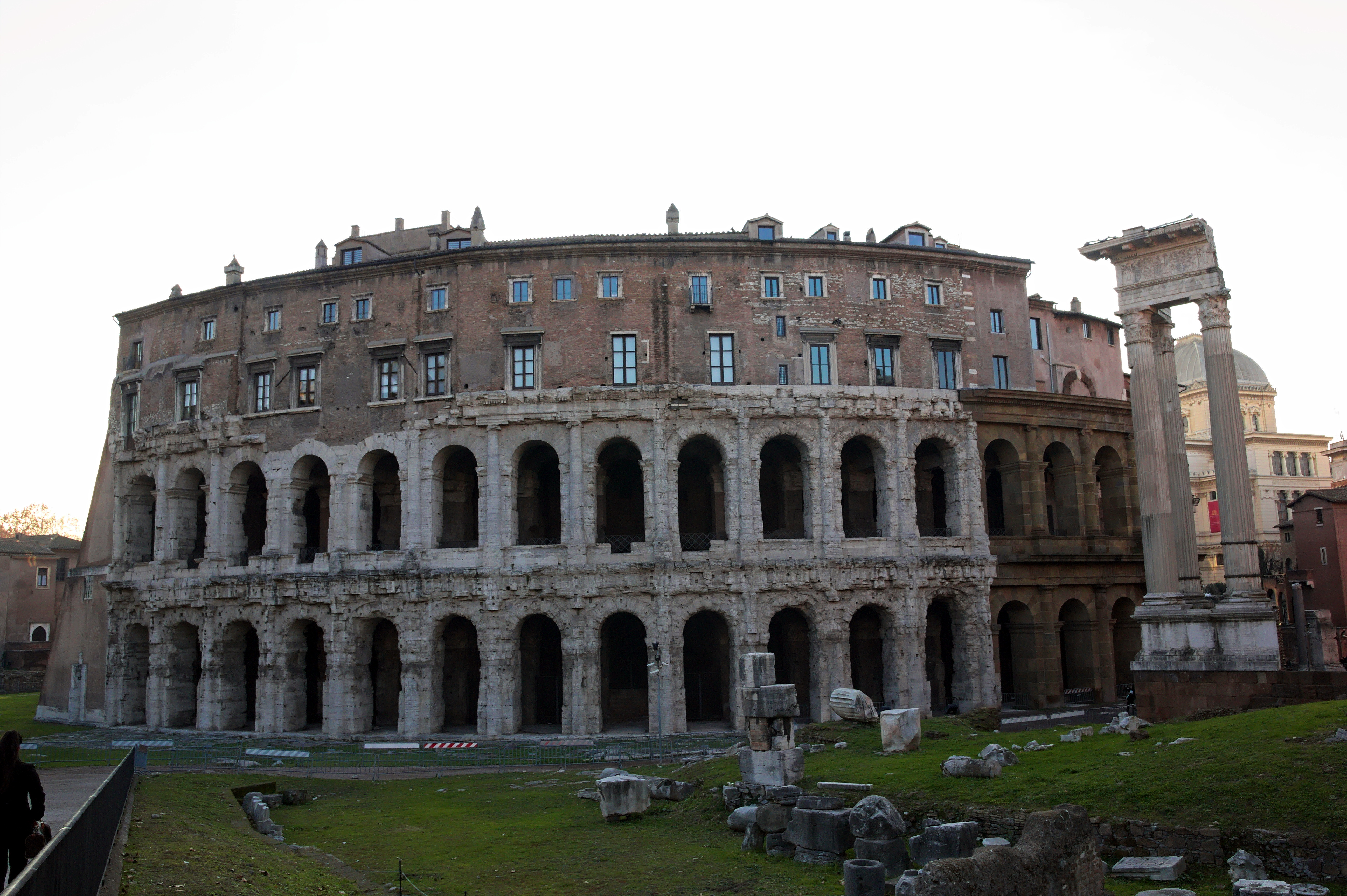 Theatre of Marcellus, Rome, Italy.